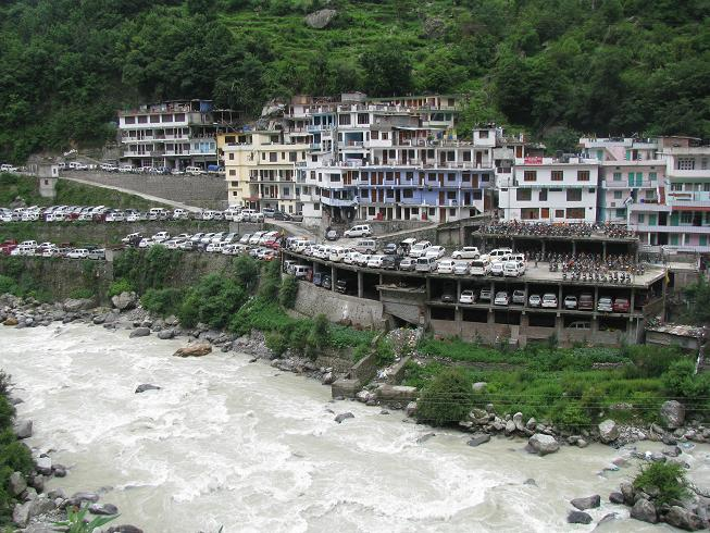 Govindghat as seen after crossing river Alaknanda while trekking towards valley of flowers